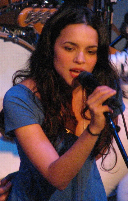 Norah Jones at Bright Eyes at Town Hal